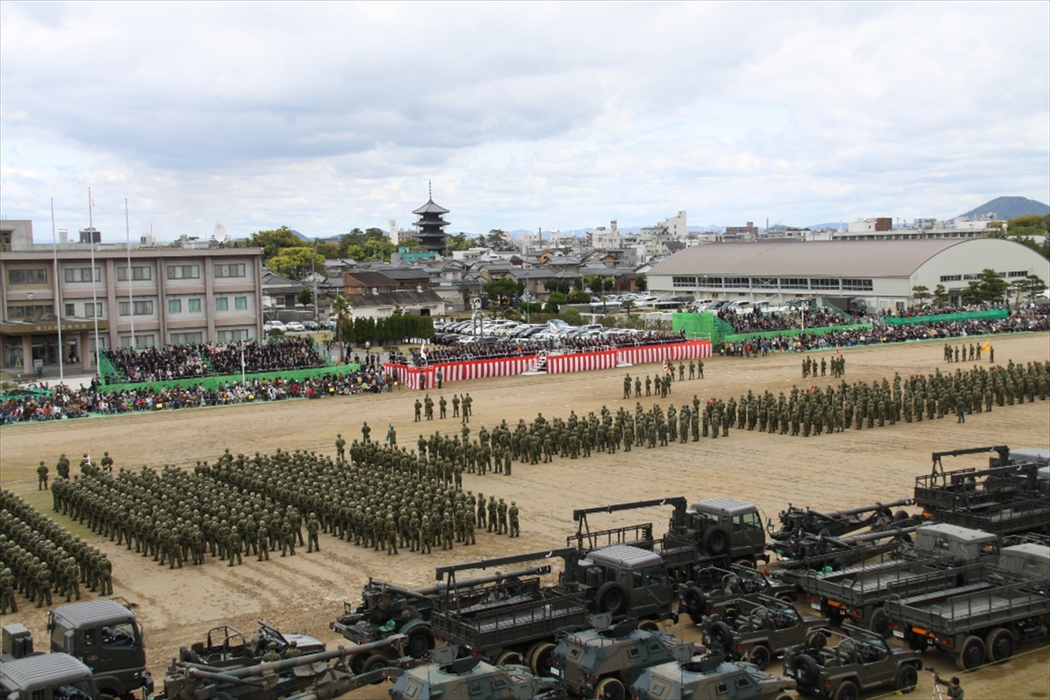 Title 善通寺2観閲式１_R.JPG Album Events and Public Relations (イベント・行事・広報活動等) 第１４旅団創隊７周年善通寺駐屯地開設６３周年記念行事（善通寺）